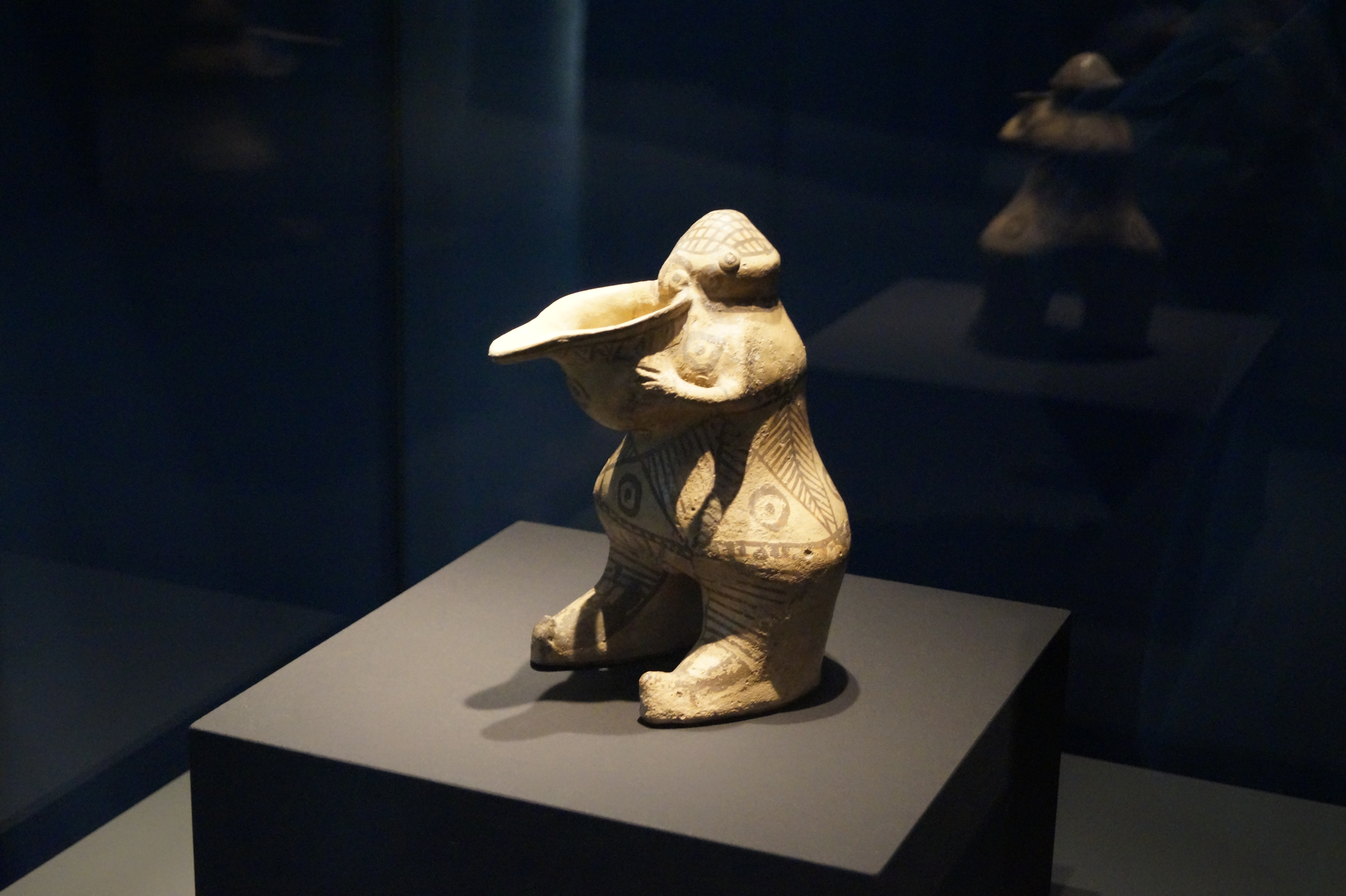 Anthropomorphic figurine from Iran, Tappe Baba Schan, Ceramics, 8th century BC